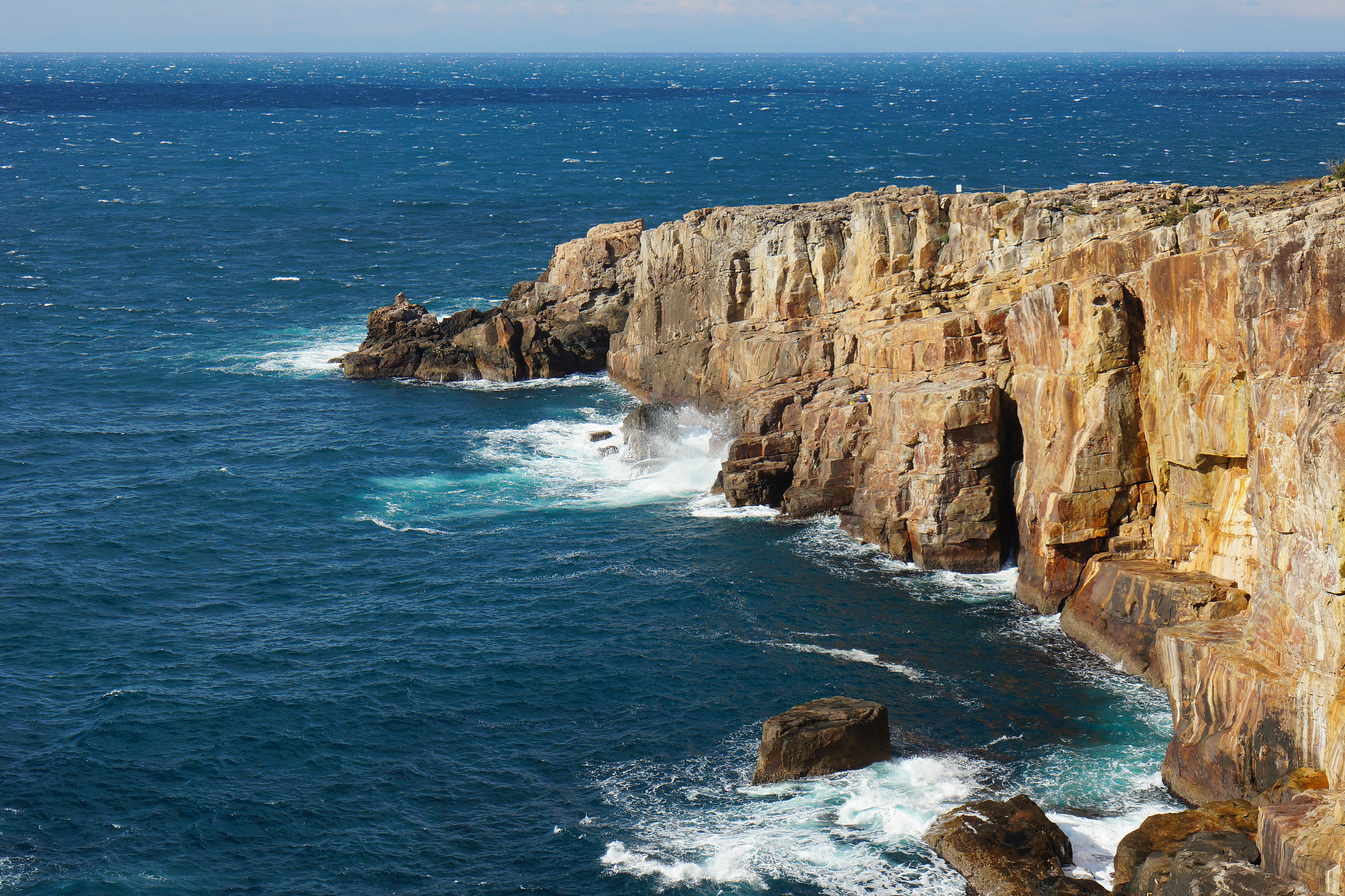 Sandanbeki in Shirahama, Wakayama prefecture, Japan.